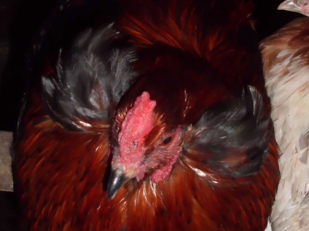 Araucana rooster with tufts